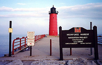 Milwaukee Pierhead Light at Milwaukee, Wisconsin, USA